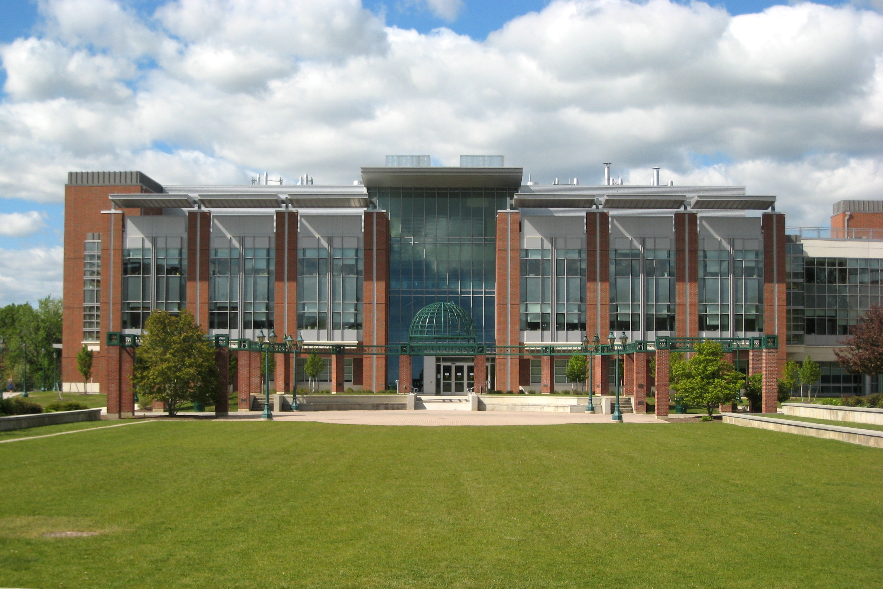 The Integrated Science Center at SUNY Geneseo in Geneseo, New York. This building officially opened in November 2006, and houses laboratories, classrooms, and offices for the departments of biology, physics and astronomy, chemistry, and the geological sciences.